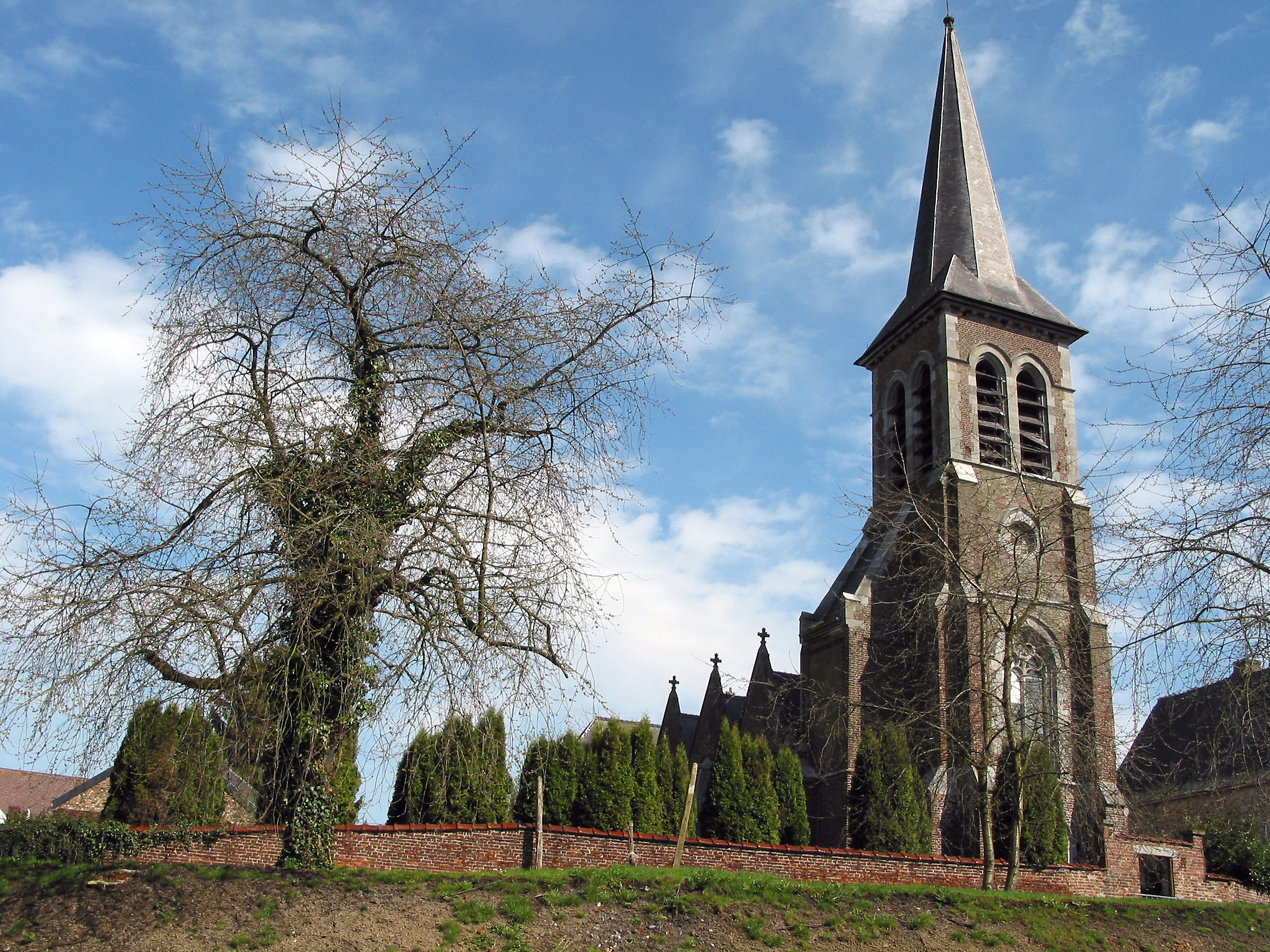 Bienne-lez-Happart (Belgium), the church of St. Remy (XVIth century).